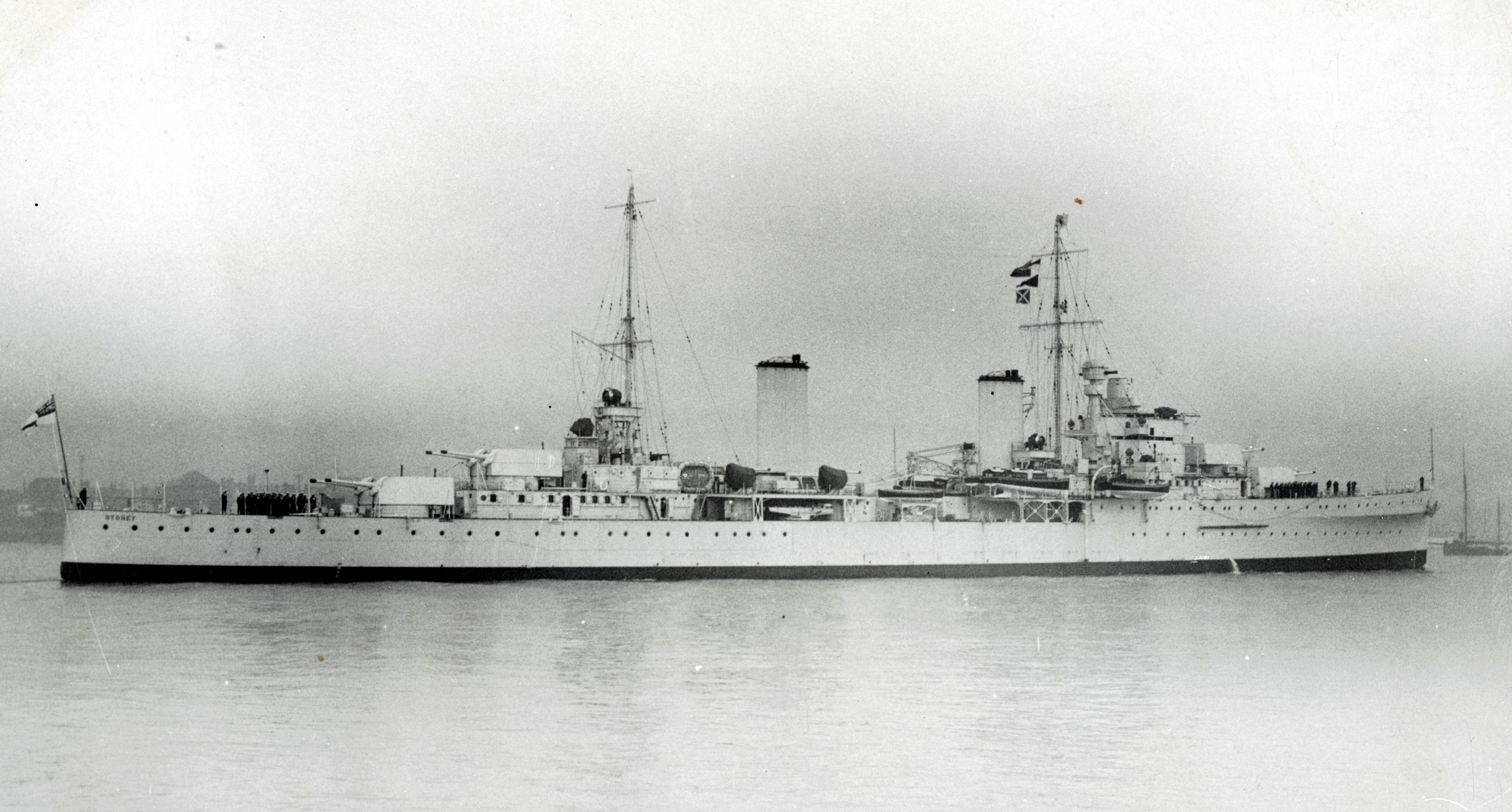 HMAS Sydney